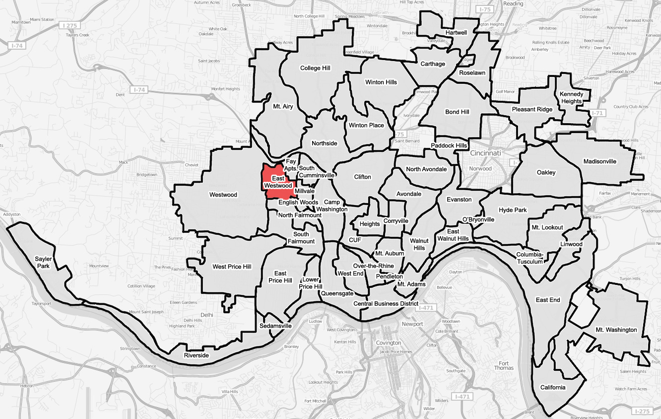 A map of the neighborhood of East Westwood within Cincinnati, Ohio. Neighborhood lines are based on information from This street map is derived from a free map.